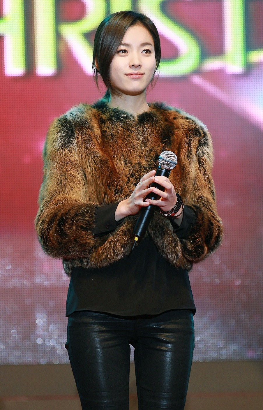 Han Hyo-joo on 17 December 2010